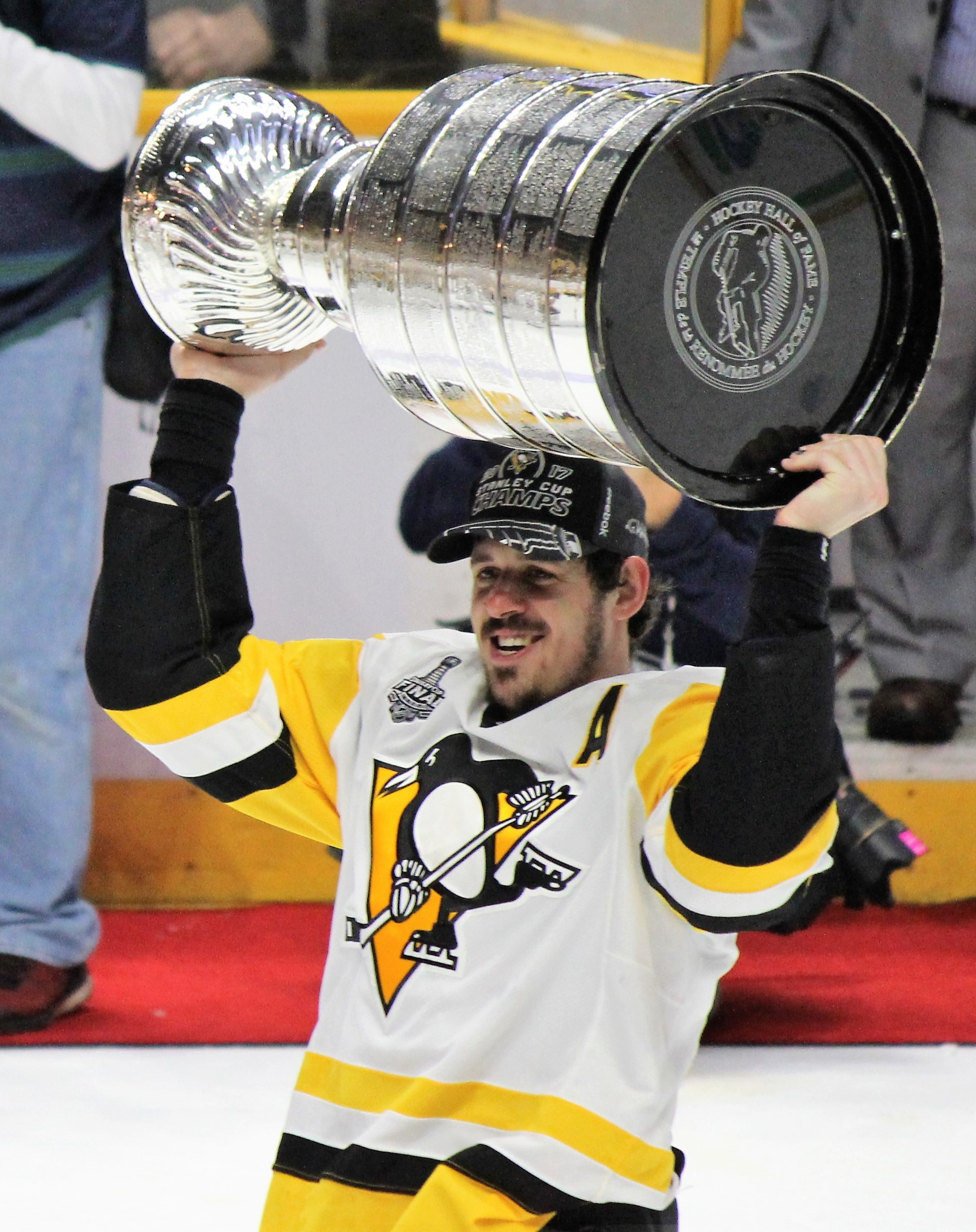 Pittsburgh Penguins center Evgeni Malkin raises the Stanley Cup, June 11, 2017, at Bridgestone Arena in Nashville, TN.